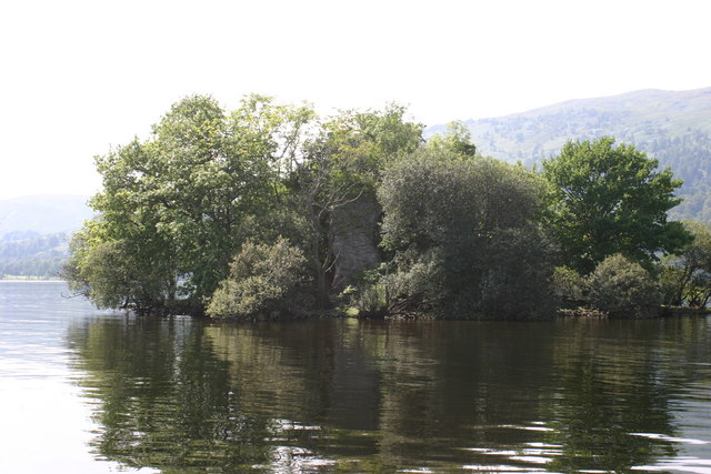 Inchgalbraith, Loch Lomond, there is a ruined castle on the island